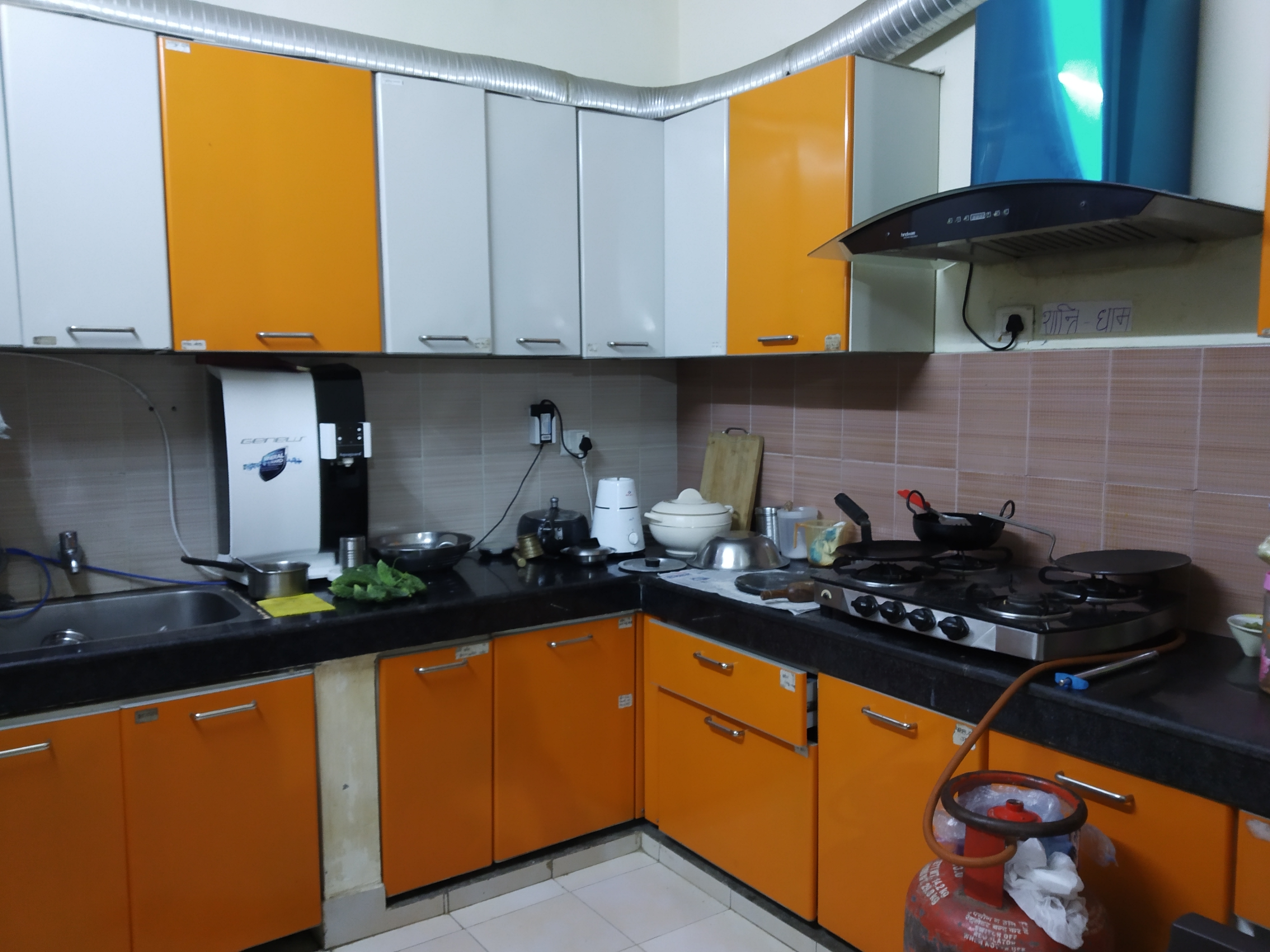 KITCHEN IN INDIA 20TH CENTUARY